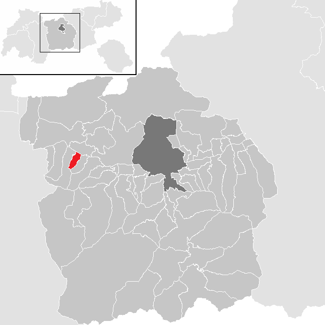 District Innsbruck Land